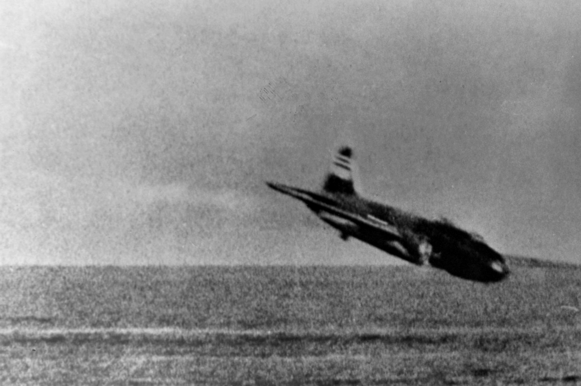 An Imperial Japanese Navy Mitsubishi G4M "Betty" bomber plunges towards the water after being shot down during an engagement with U.S. Navy Grumman F4F-3 Wildcat fighters from Fighting Squadron VF-3 defending the aircraft carrier USS Lexington (CV-2) off Rabaul, New Britain, in February 1942.